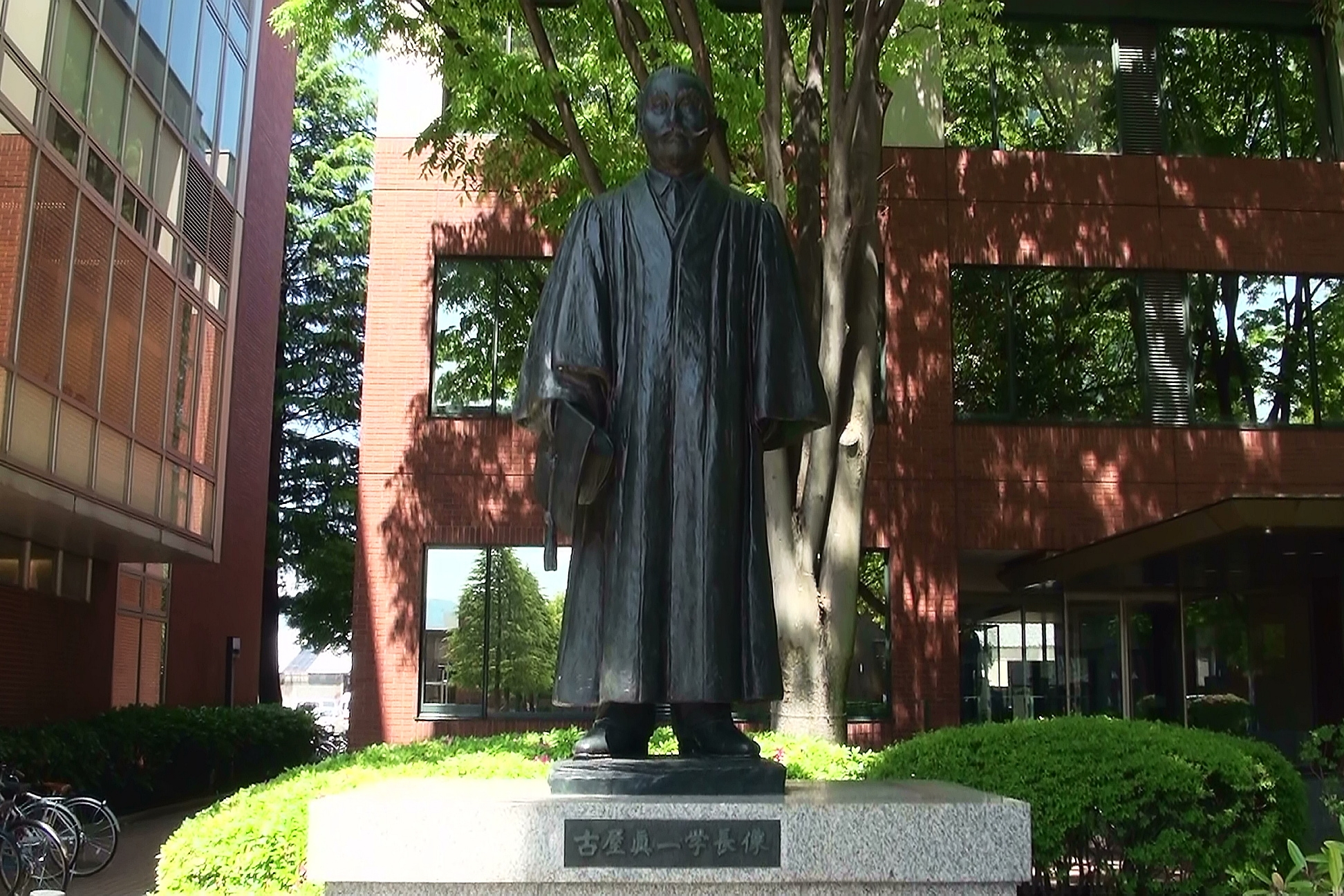 A bronze statue of Yamanashi Gakuin University founder Sinichi Furuya